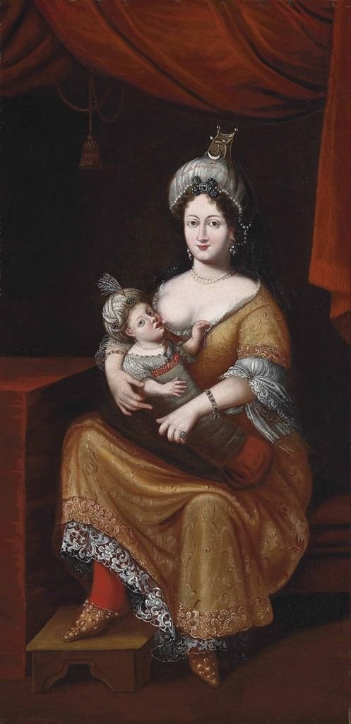 probably Kösem Sultan and her son Murad or Ibrahim